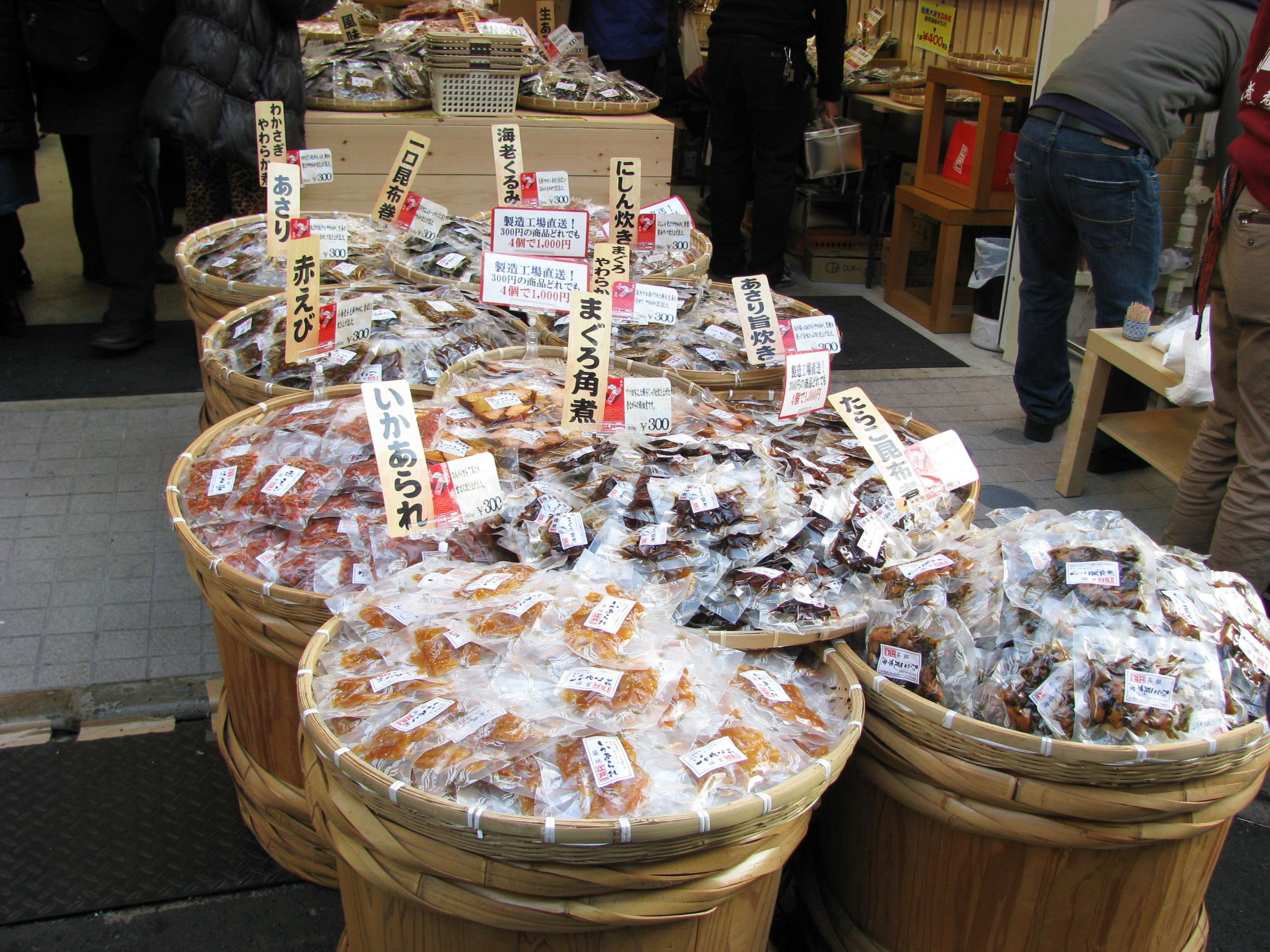 The Tsukudani. This location is Tsukiji in Chūō, Tokyo, Japan.